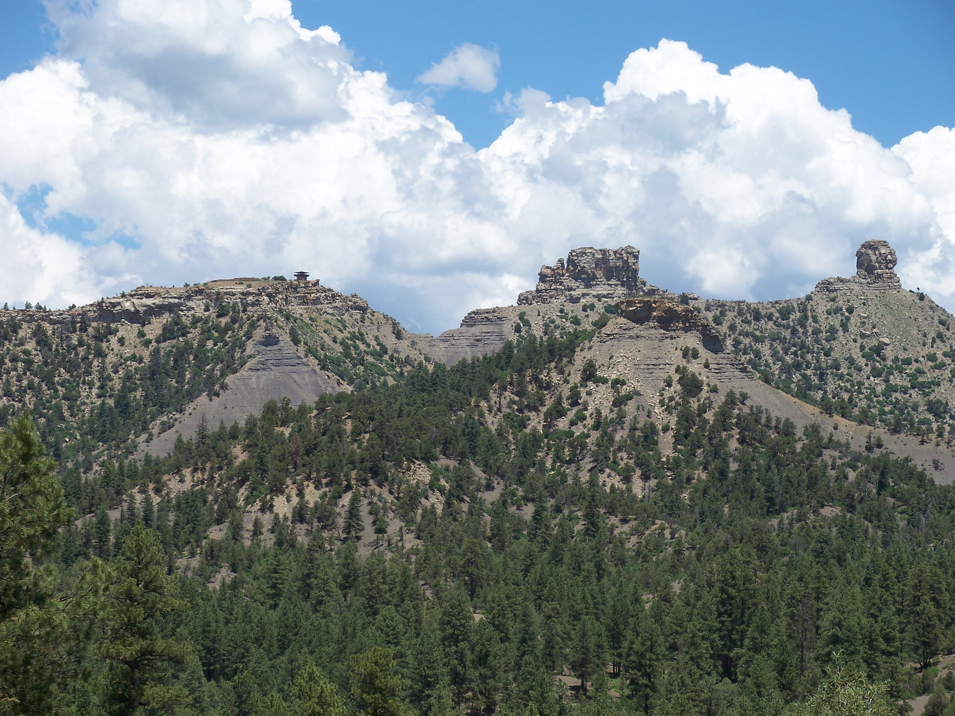 View of Chimney Rock (far right), Companion Rock (Center) and Great House Pueblo (left) within the Chimney Rock Archaeological Area, part of the San Juan National Forest located in southwest Colorado. Sitting atop the mesa on the left is the Great House Pueblo, constructed around 1000 A.D., and the more visible Chimney Rock Fire Lookout, constructed by the Civilian Conservation Corps in the late 1930s.